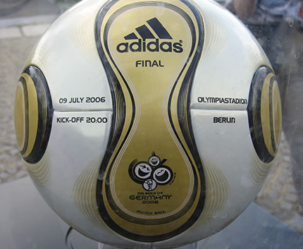 Match ball World Cup germany 2006 Final.